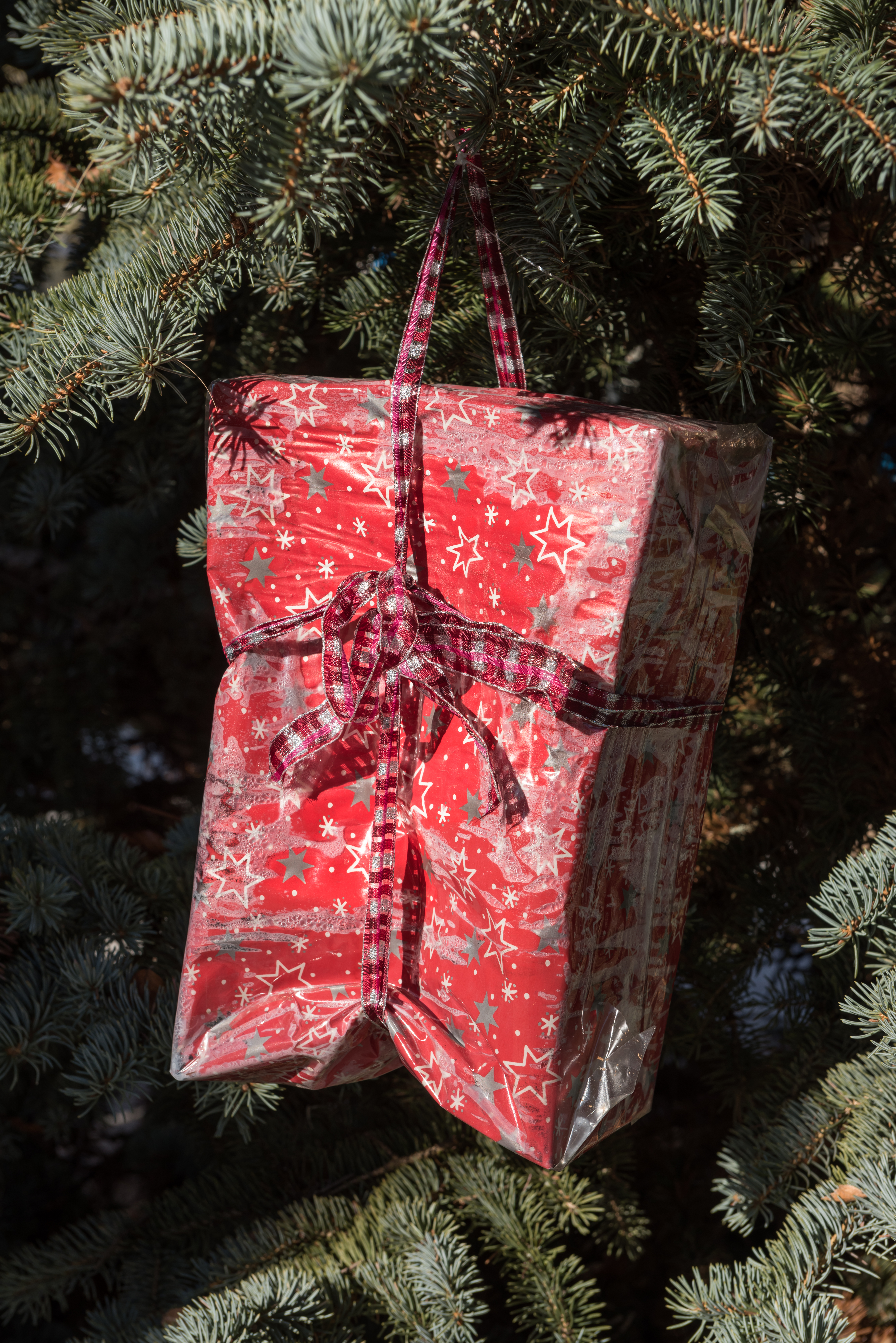 Christmas gift hanging on a Christmas tree in front of the municipal office on Hauptstrasse #153, municipality Poertschach on the Lake Woerth, district Klagenfurt Land, Carinthia, Austria, EU